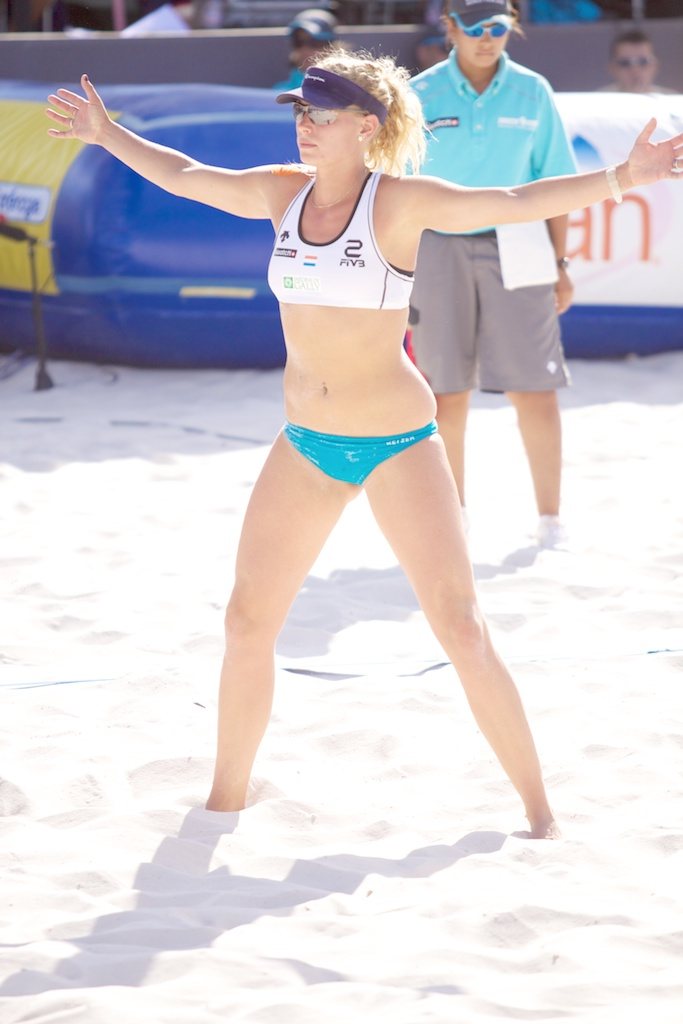 FIVB Worldtour 2010 Sanne Keizer [The Netherlands]